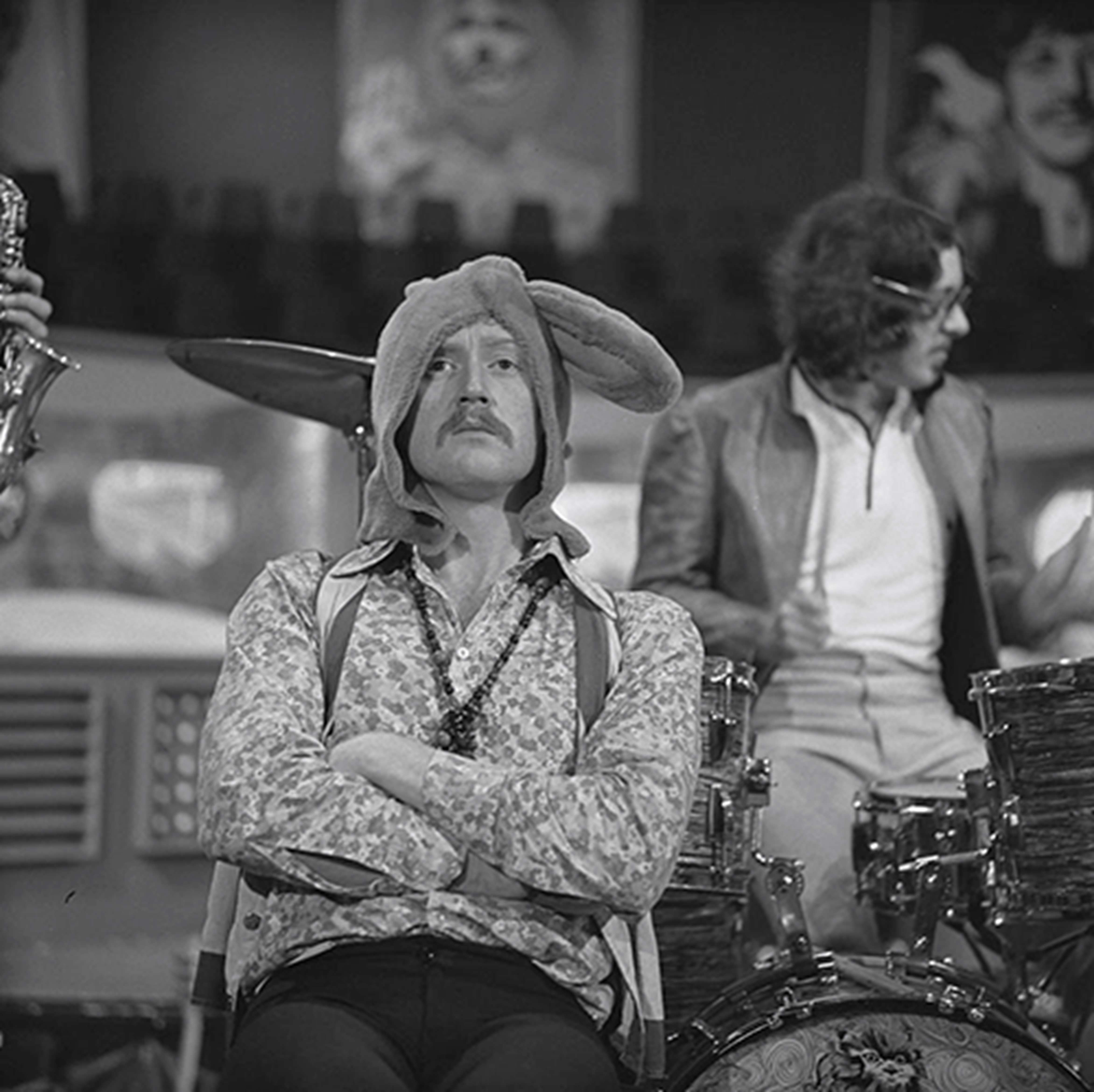 Bonzo Dog Doo-Dah Band in Fenklup (Dutch TV), 7 June 1968. Left to right: Vivian Stanshall, Larry Smith (drums)